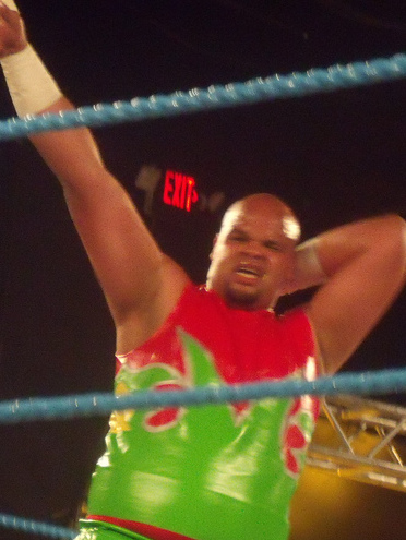 Sweet Papi Sanchez at an FCW show in July 2009. Cropped from original image.